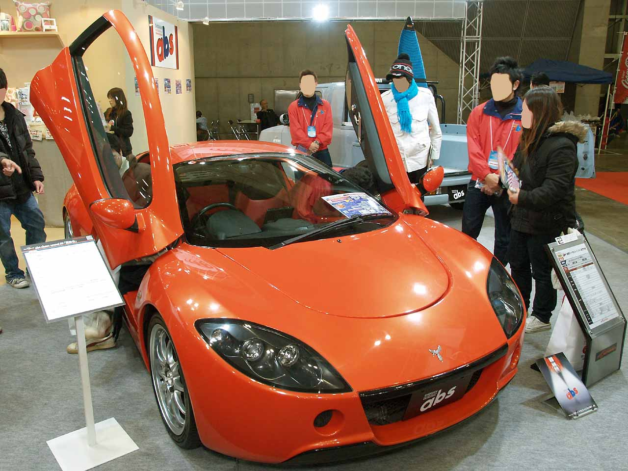 ASL Garaiya left and right doors opened, at Tokyo Auto Salon 2008. Shonan Automobile Business College archive